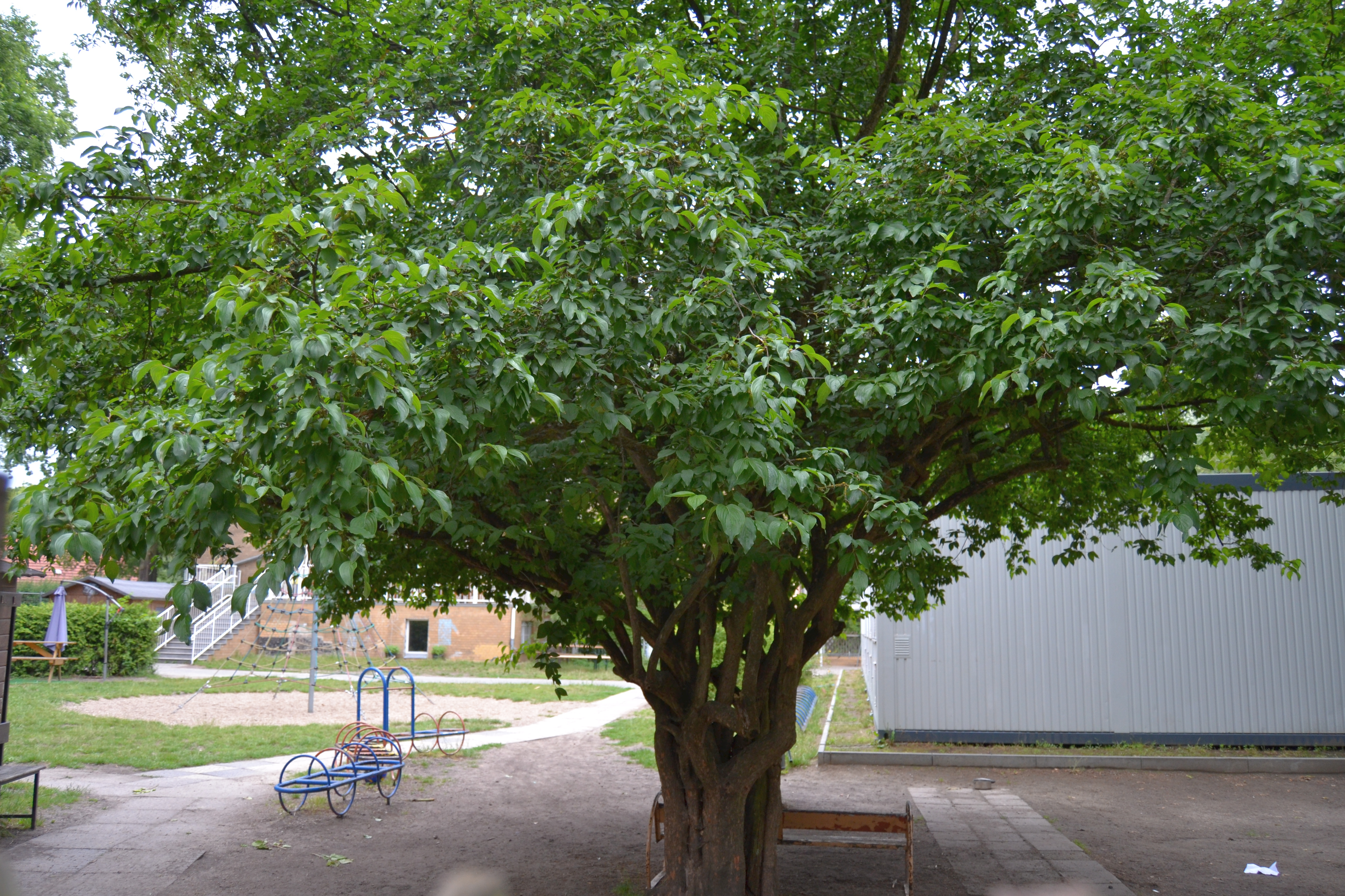 Cornelian Cherry (Cornus mas) in Schöneiche bei Berlin; Natural monument; planted in the years after 1762 in remodeling work of the castle and the castle park, which included the tree once.